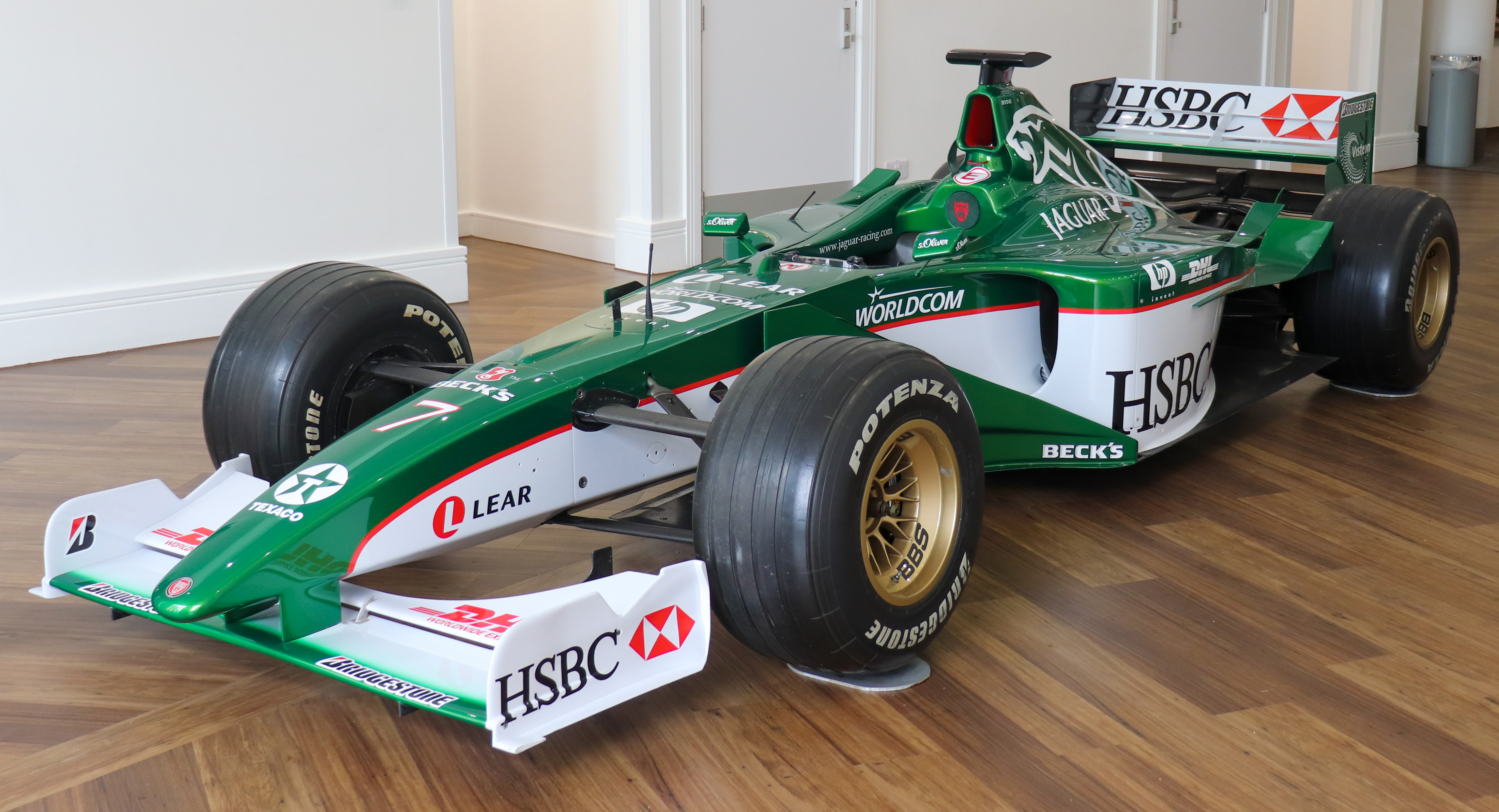 2000 Jaguar R1 3.0 Front Taken at the British Motor Museum, Gaydon